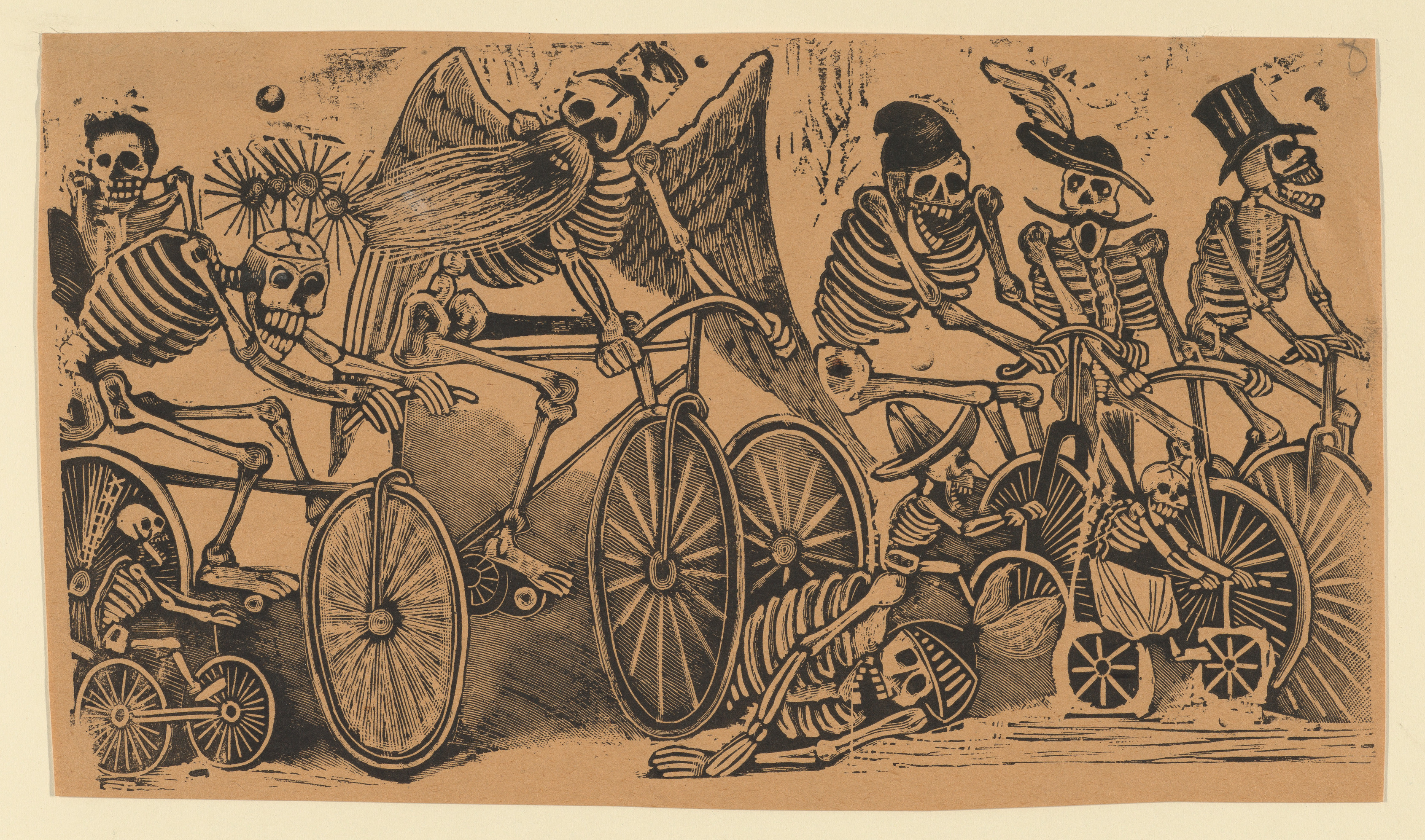 Image by José Guadalupe Posada, Mexican engraver, shows various skeletons riding bicycles